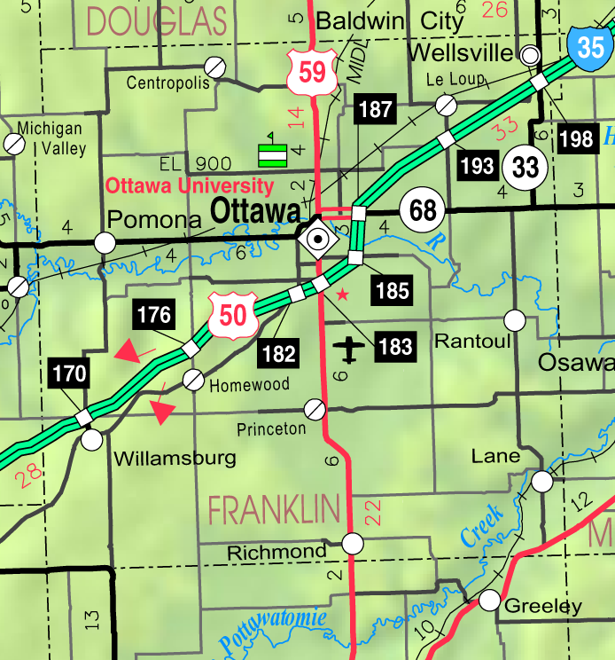 This map of Franklin County, Kansas, USA, is copied at a resolution of 300 pixels/inch from the original PDF file.